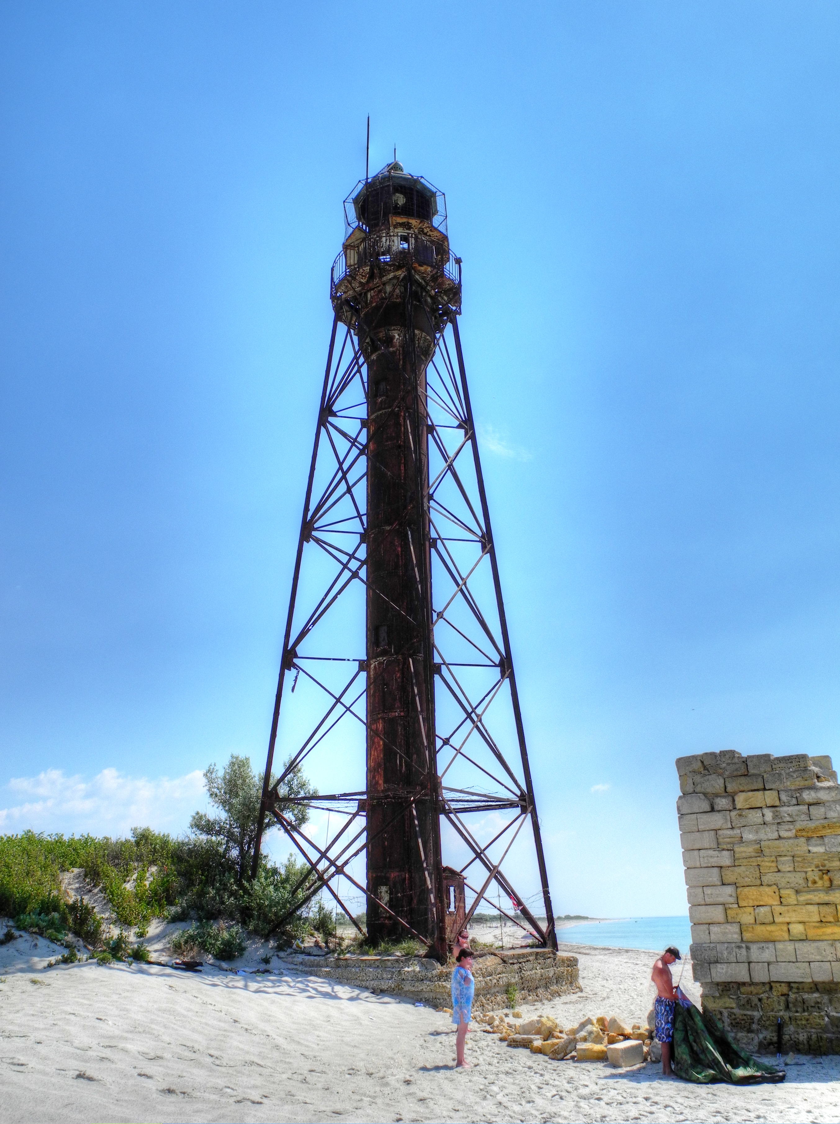 Old Lighthouse on Dzharylgach island, in Kherson Oblast, near Crimea, Ukraine.